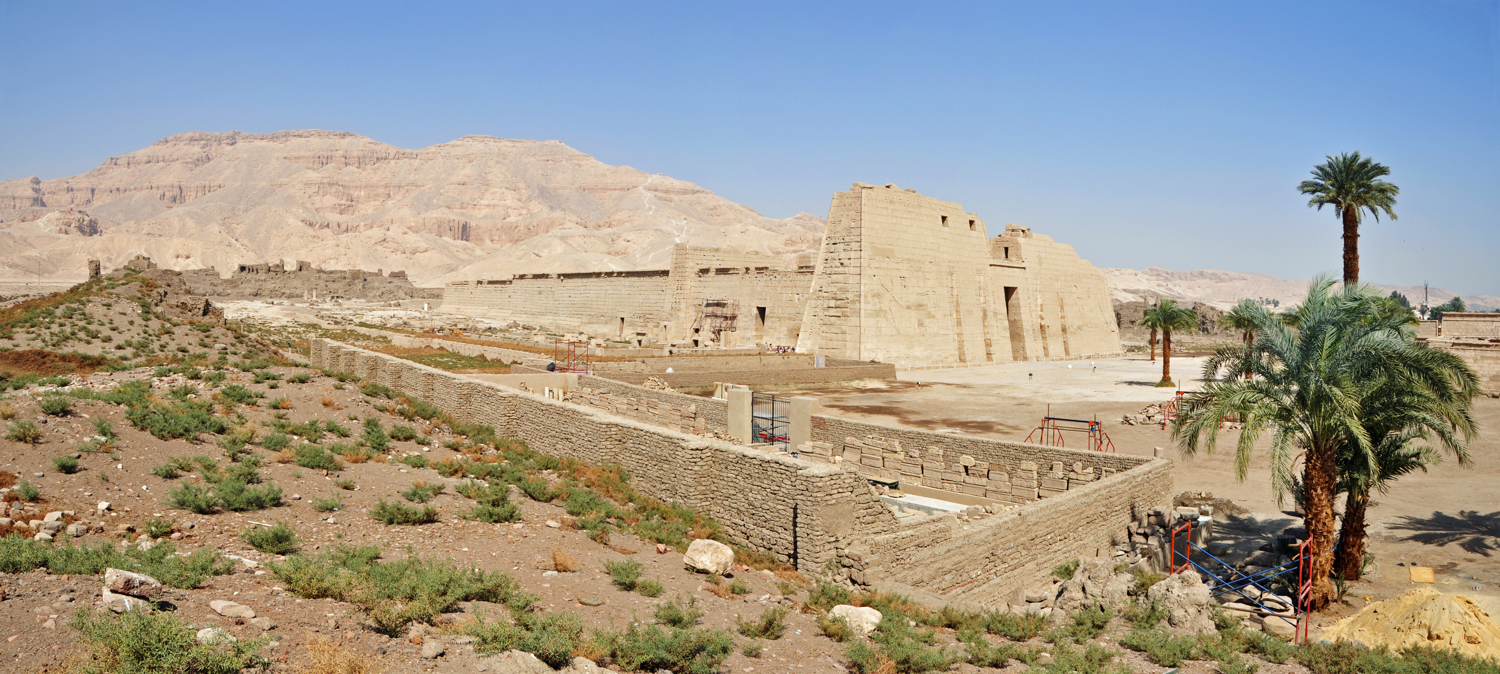 Medinet Habu (Egypt): Ramses III temple, general view